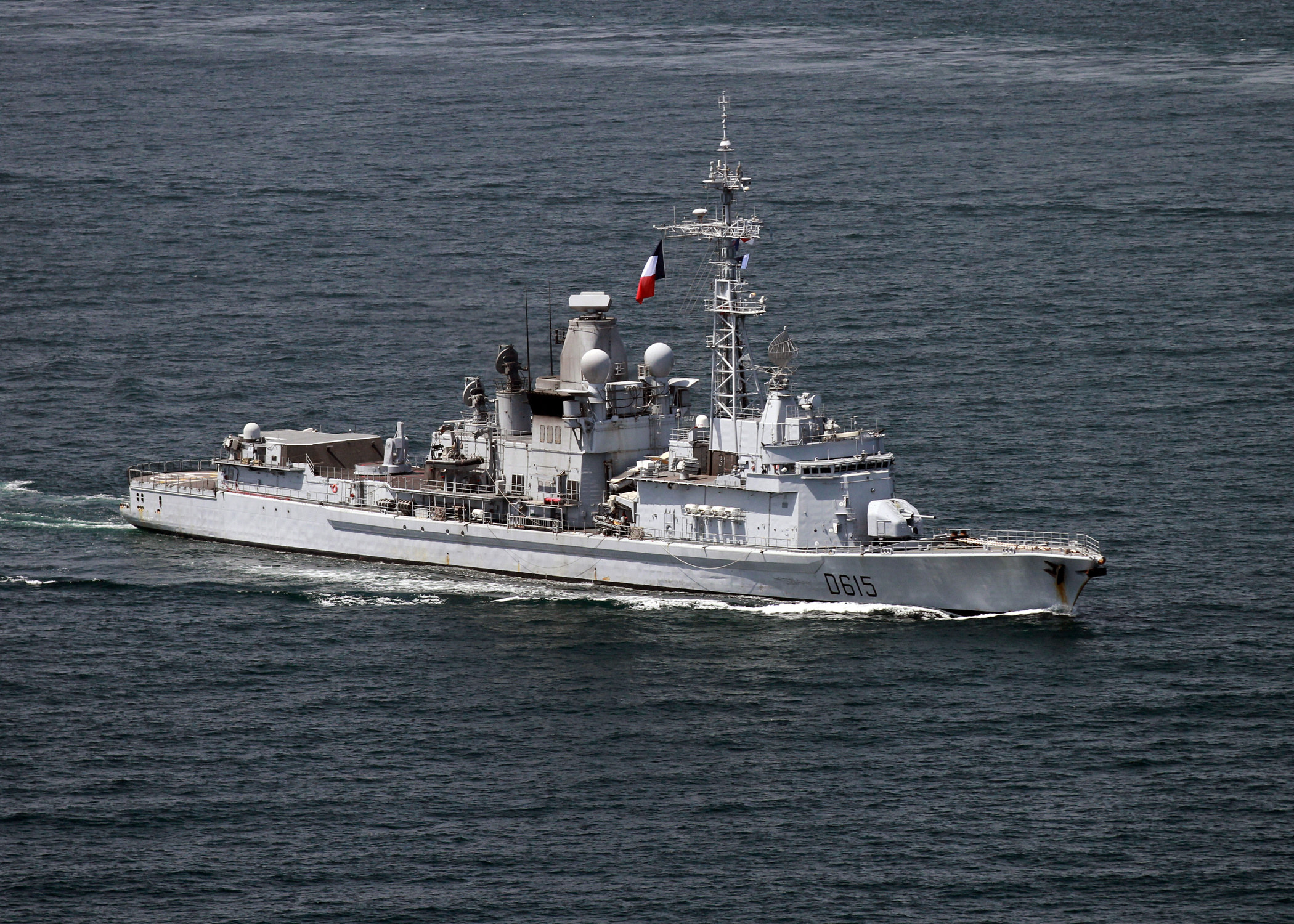 The French Marine Nationale anti-air frigate Jean Bart (D615) is underway in the Arabian Sea. Jean Bart was supporting maritime security operations and theater security cooperation efforts in the U.S. 5th Fleet area of responsibility.